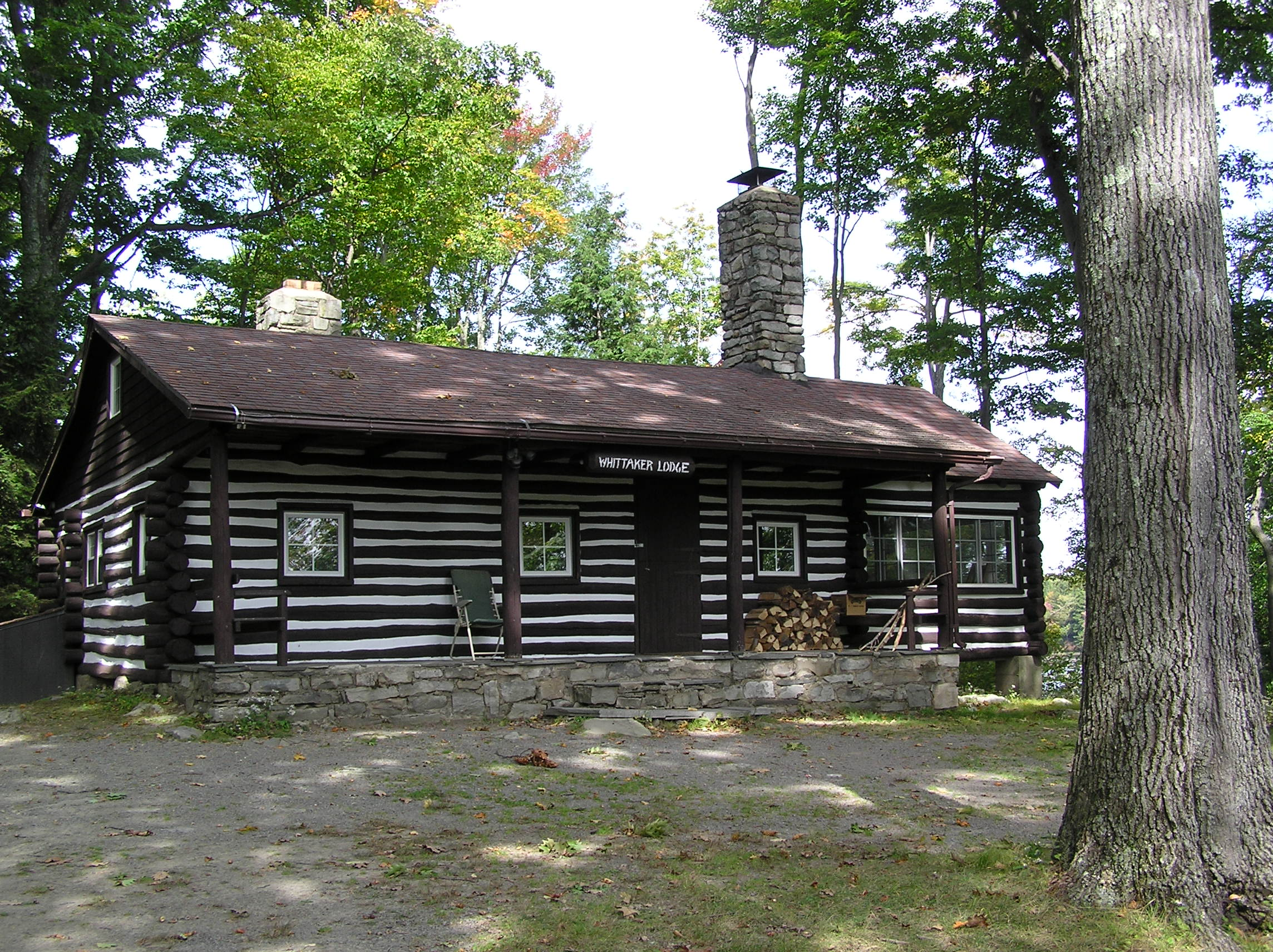 Promised Land State Park-Whittaker Lodge District the Whittaker Lodge on Whittaker Road in the Whittaker Lodge District in the Promised Land State Park in Palmyra Township, Pennsylvania.